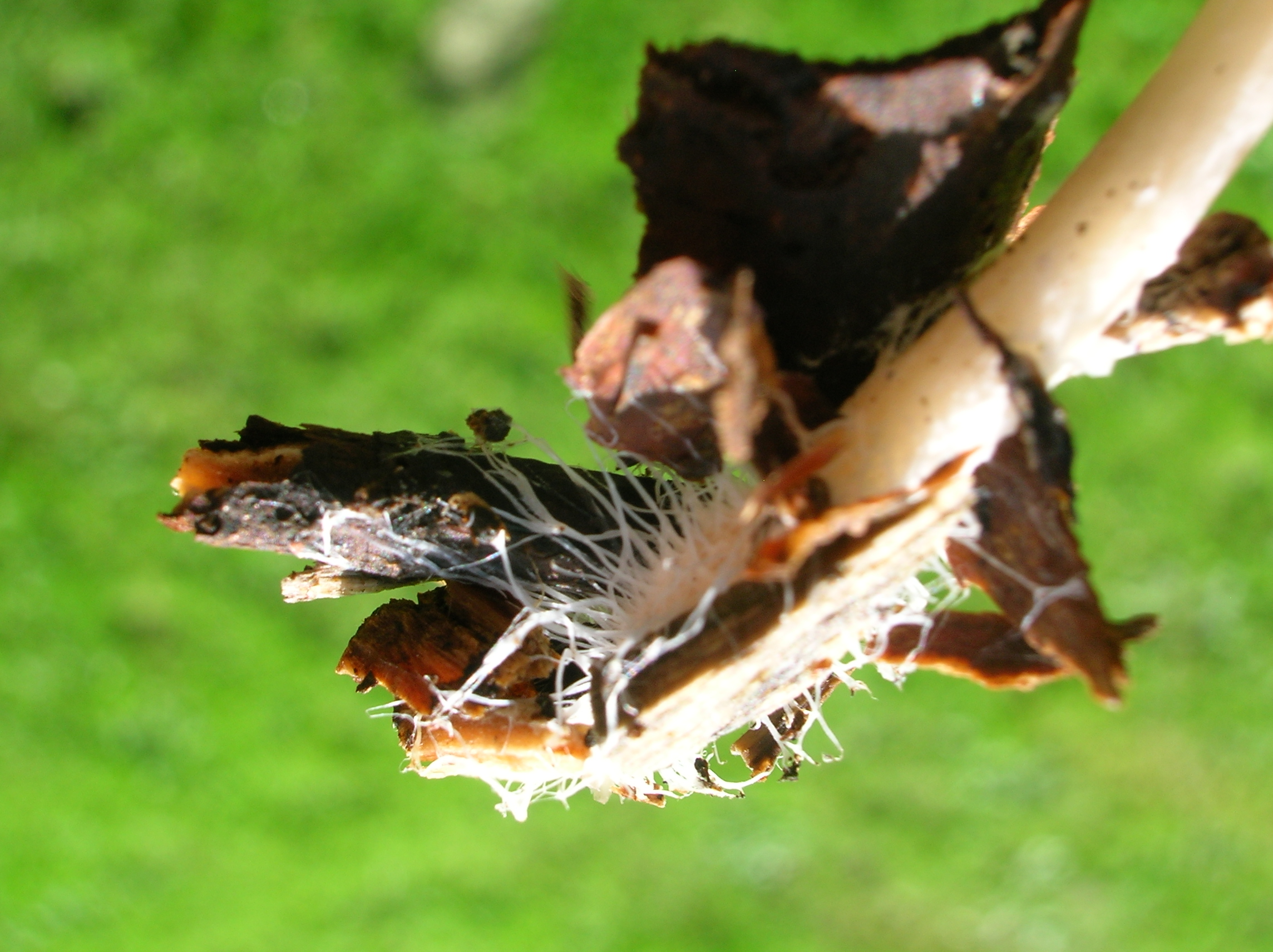 The base of Mycena galericulata's stipe. Eglinton country Park, North Ayrshire, Scotland